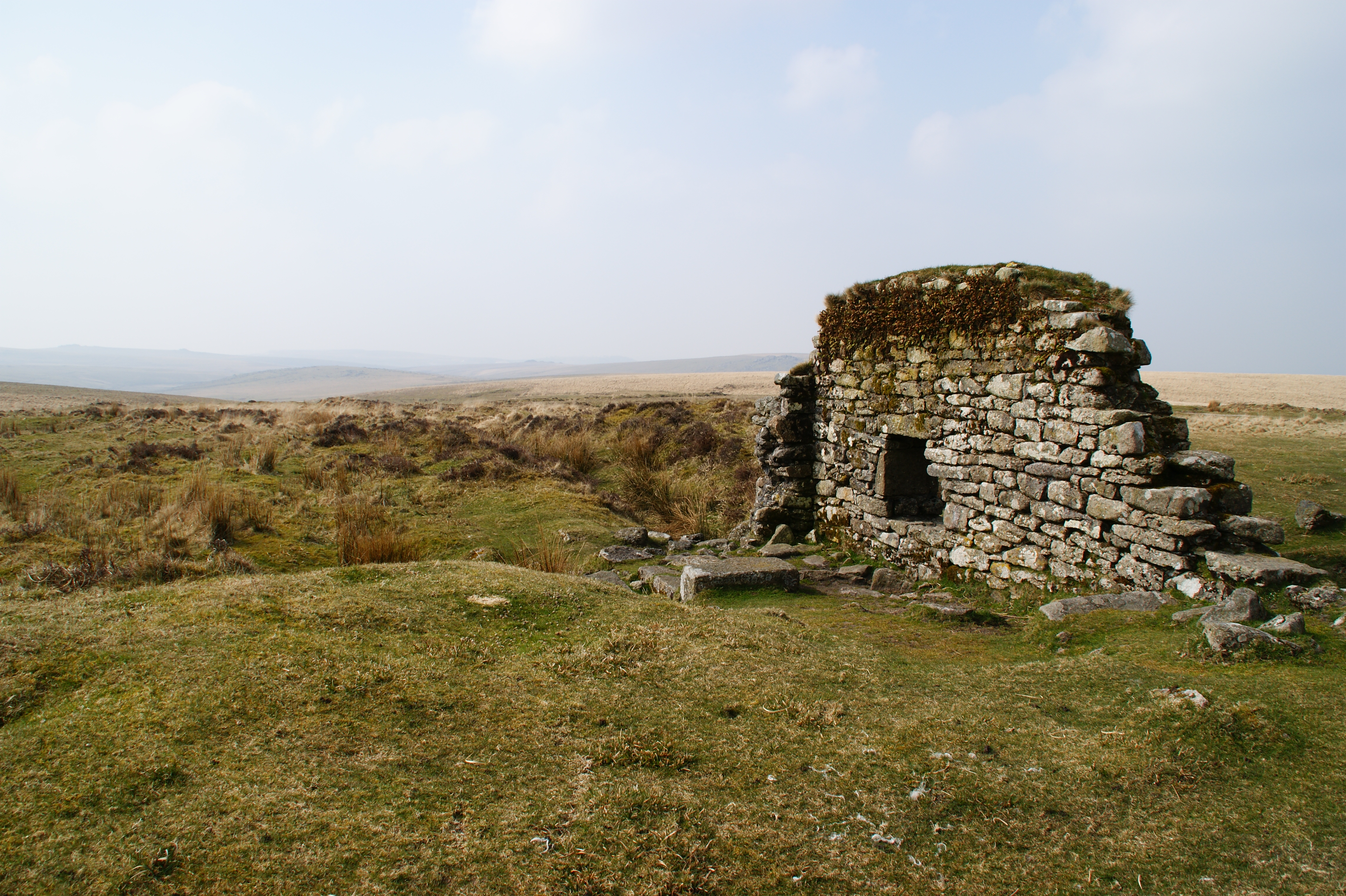 Remaing wall of one of the mine buildings (smelting house?) towards the lower (western) end of Eylesbarrow mine on Dartmoor in South Devon, UK.